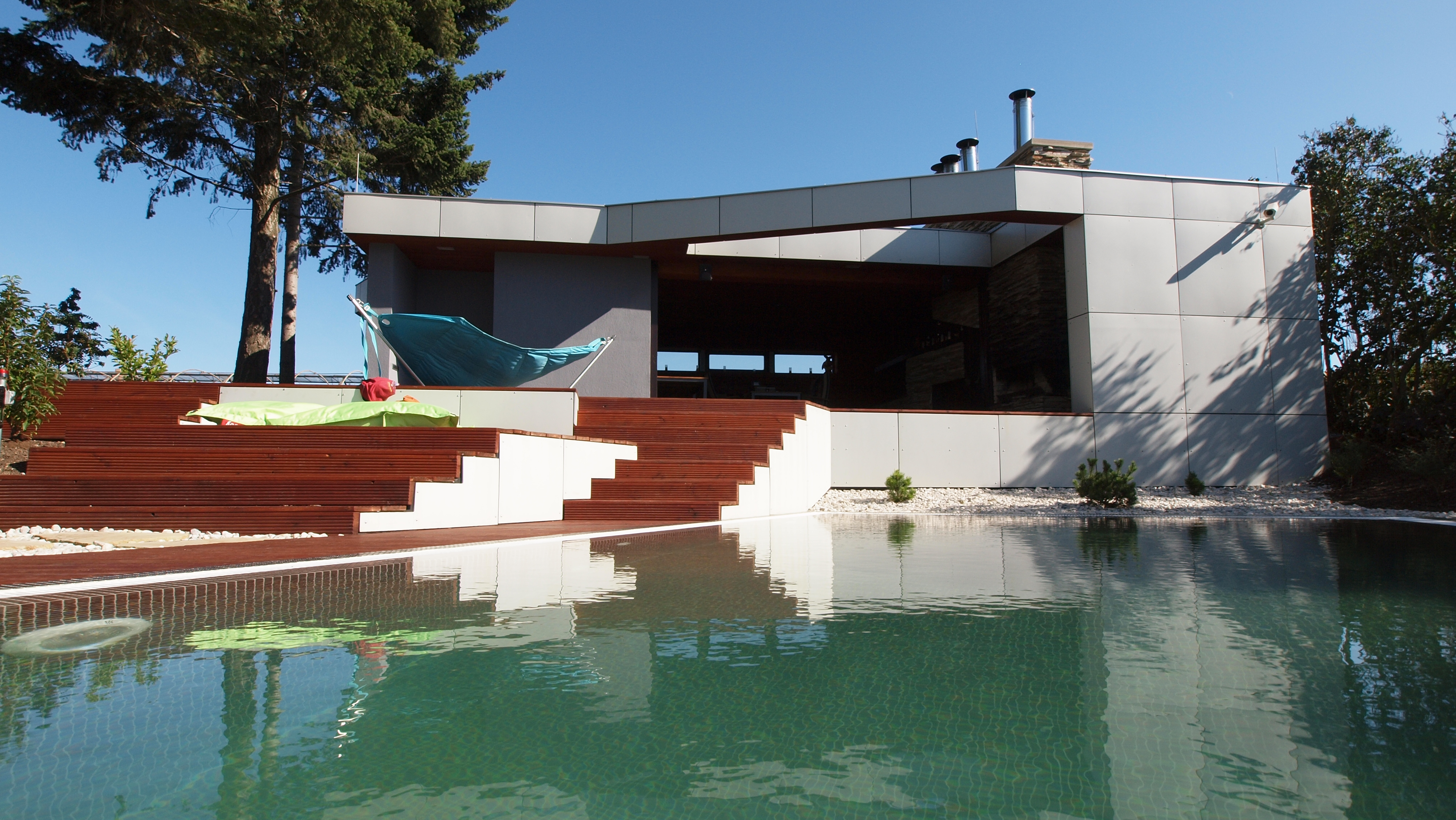 Example of an intelligent building